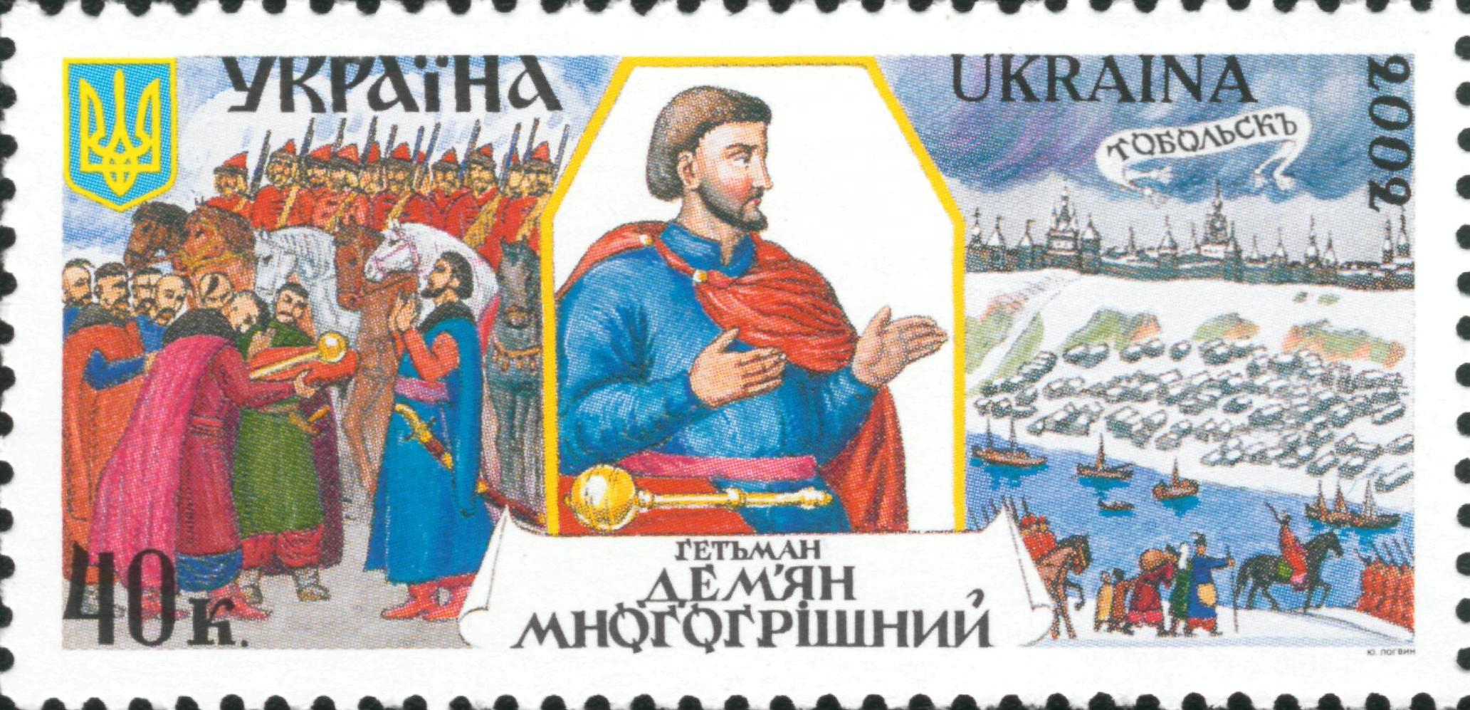 Stamp of Ukraine Марка Украины из серии Гетманы Украины. Демьян Многогрешный